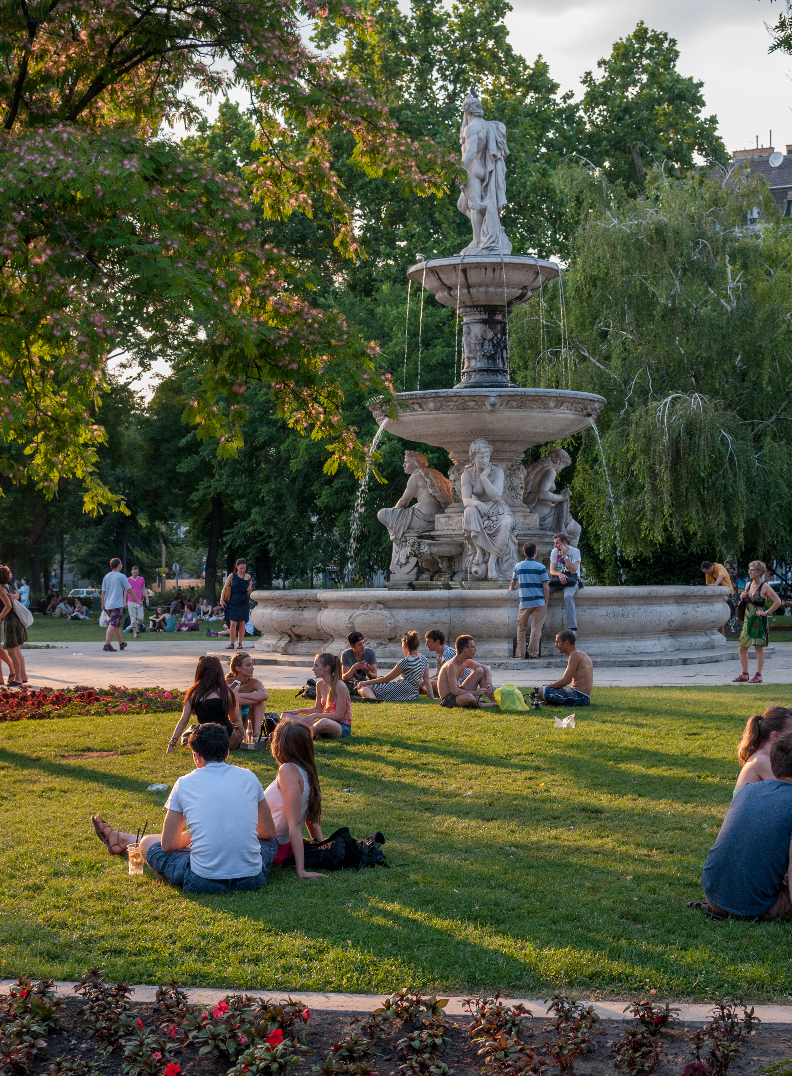 Budapest city